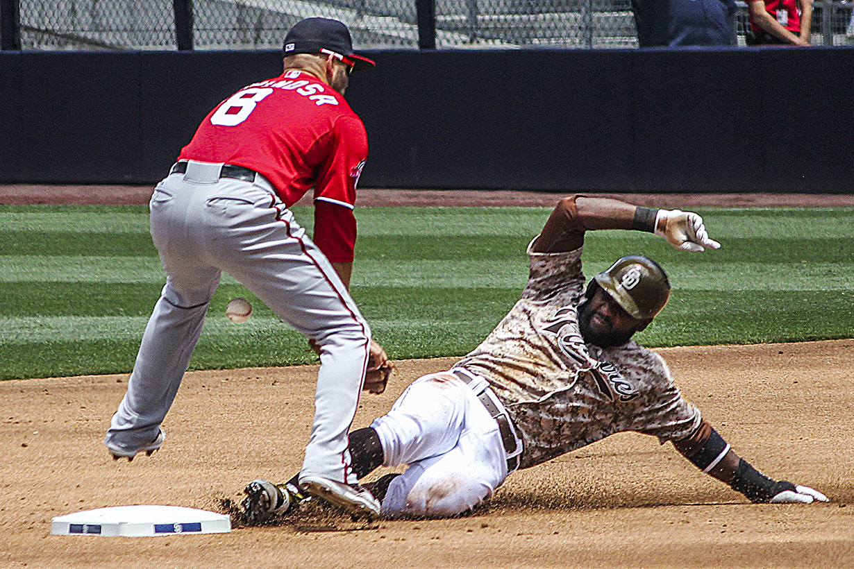 Almonte vs the Washington Nationals.